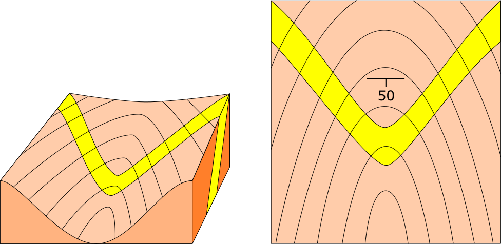 Layers inclined downstream at a lower angle than the valley gradient: they give a pattern that cuts contour lines and forms a V whose apex anomalously points upstream.